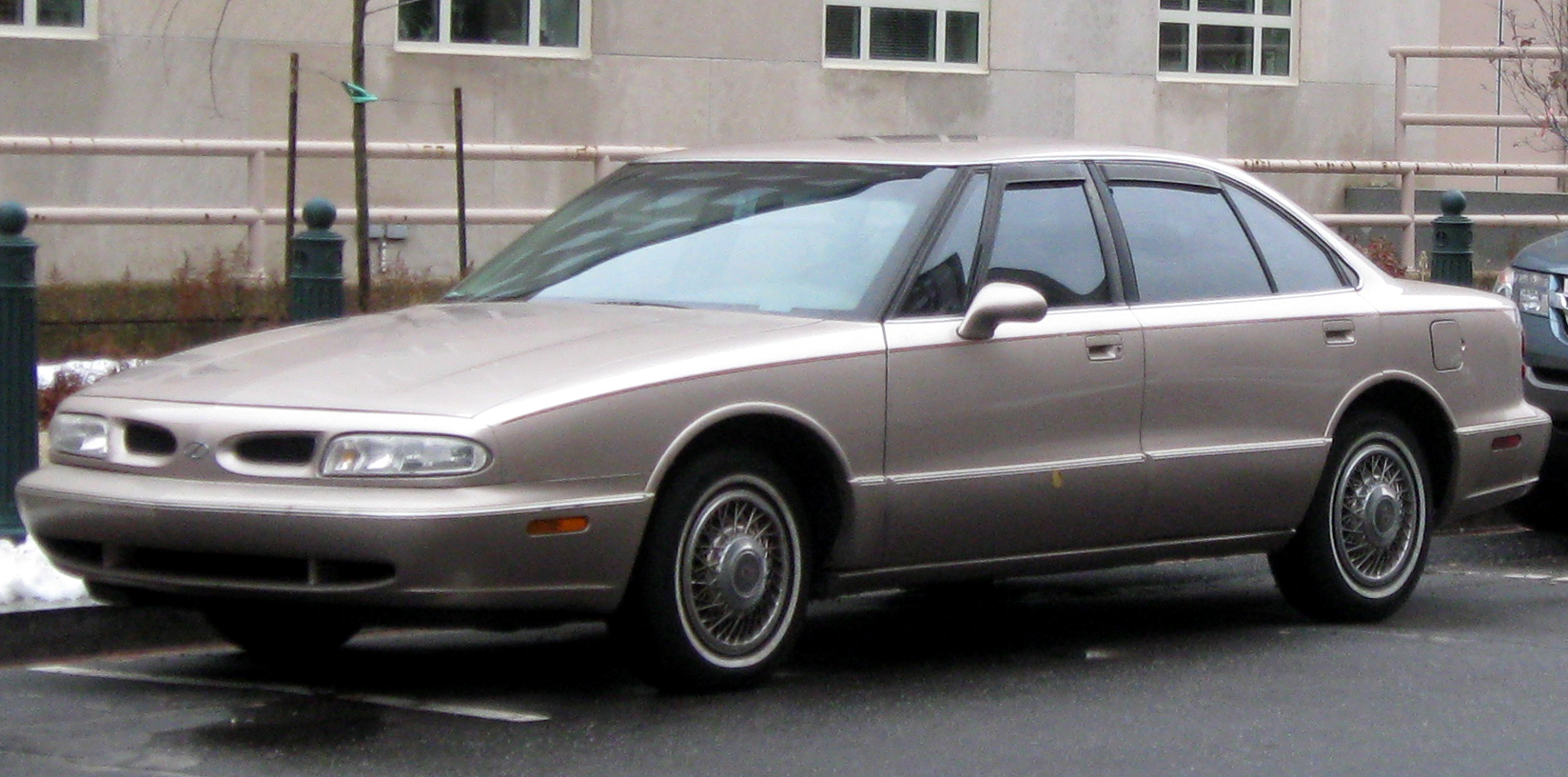 1996-1999 Oldsmobile 88 photographed in Washington, D.C., USA.